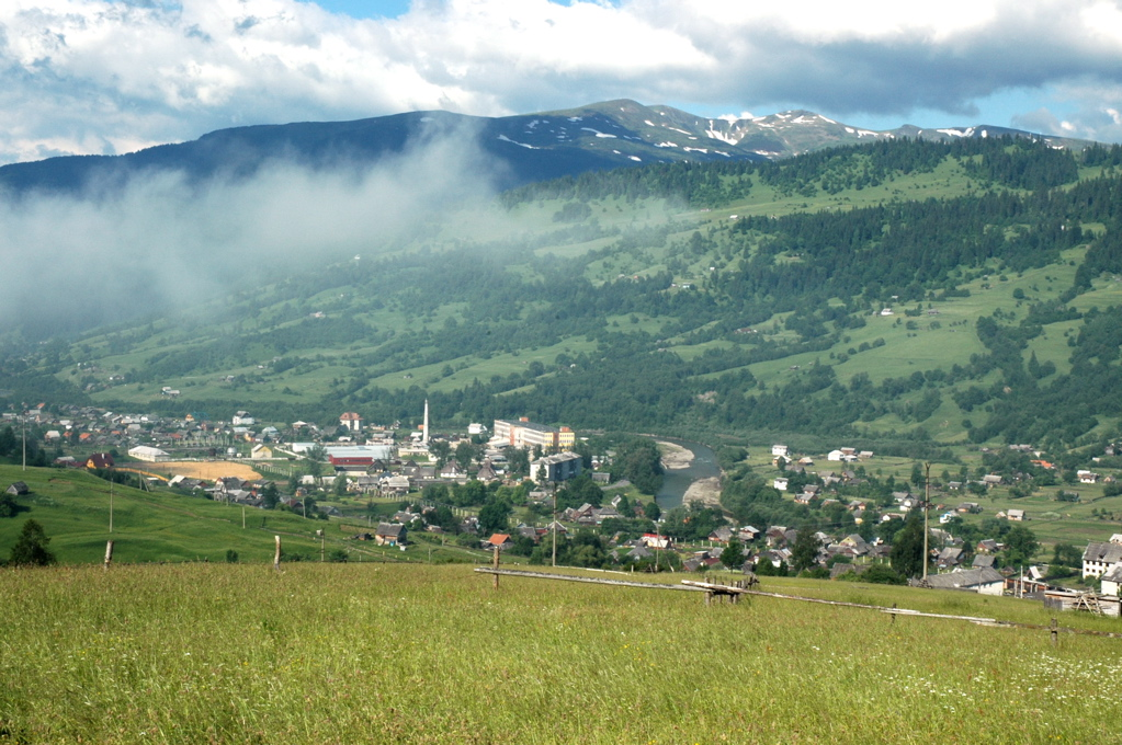 Panoramic view on the town of Yasinia, Zakarpattia oblast, Ukraine, with the Black Tisa river.